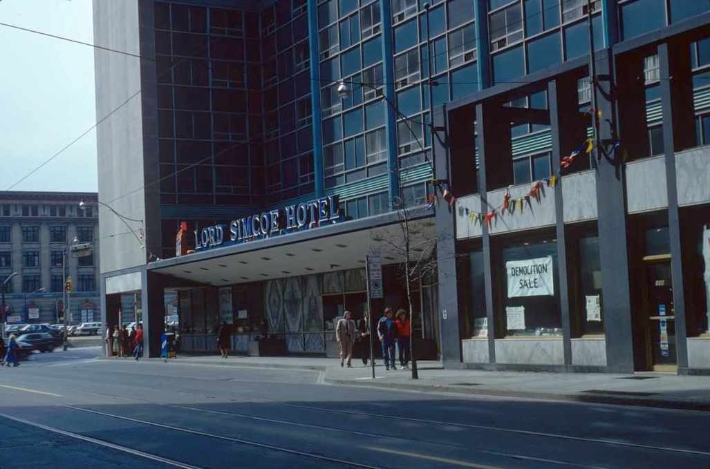 The Lord Simcoe Hotel prior to its demolition. Built in 1956, the 20-storey, modernist hotel was designed by Henry T. Langston and Peter Dickinson. The hotel was named for John Graves Simcoe, Lieutenant Governor of Upper Canada. Located on the northeast corner of King Street and University Avenue (150 King Street West), it was closed in 1979 and torn down in 1981. It was replaced by the Sun Life Centre East Tower in 1984. The hotel was unable to compete with other downtown hotels due to a lack of central air conditioning and convention space. Toronto, Ontario, Canada.